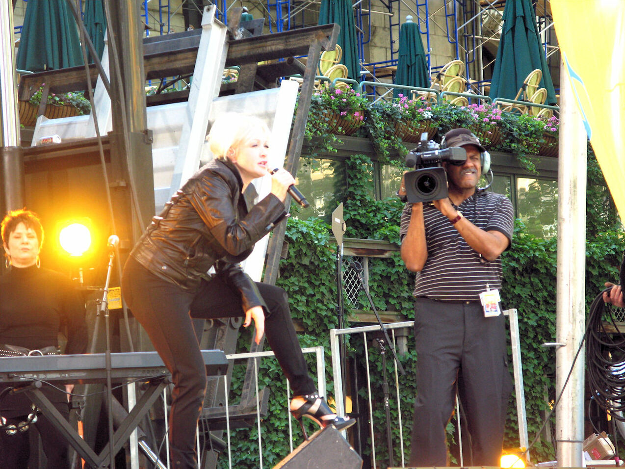 Summer Concert Series